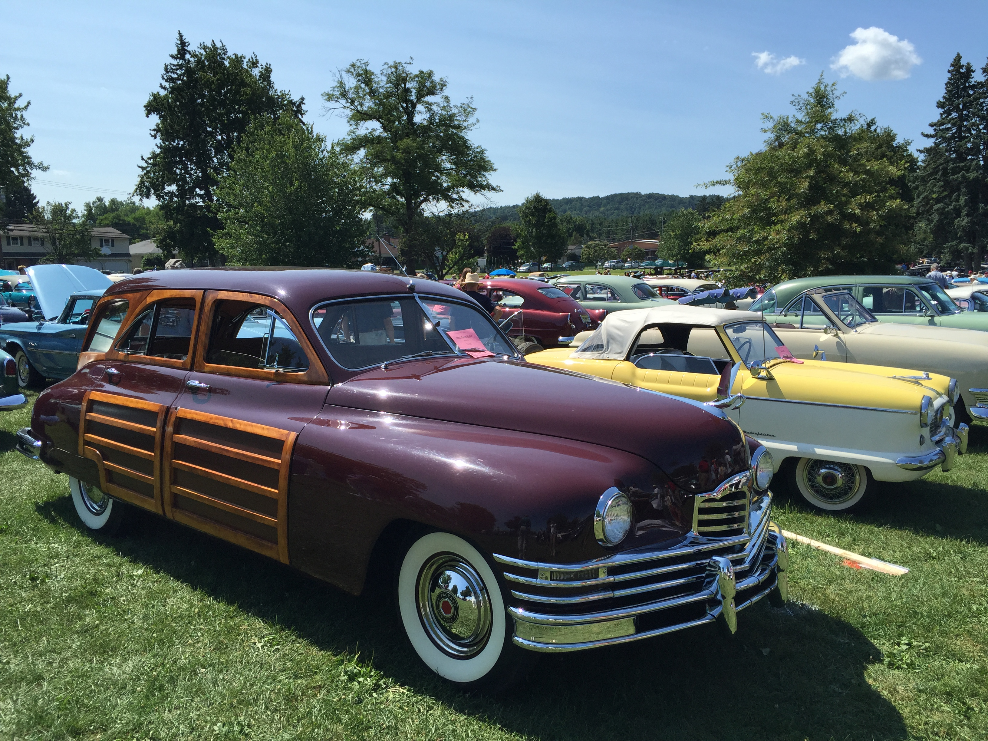 Packard Station Sedan. Picture taken at the 52nd Annual "Das Awkscht Fescht" antique car show in Macungie, Pennsylvania.